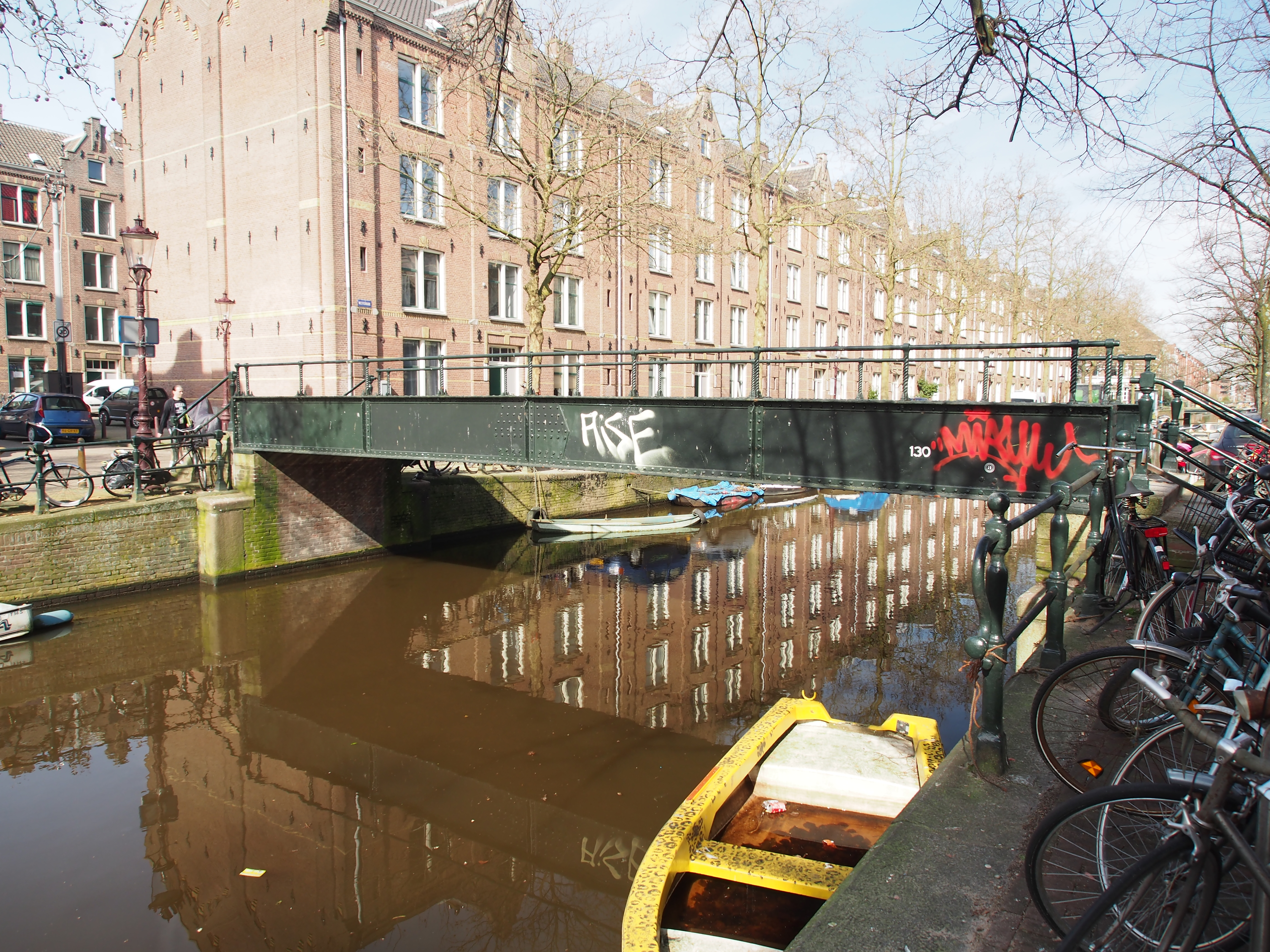 Photographed at Amsterdam, The Netherlands.